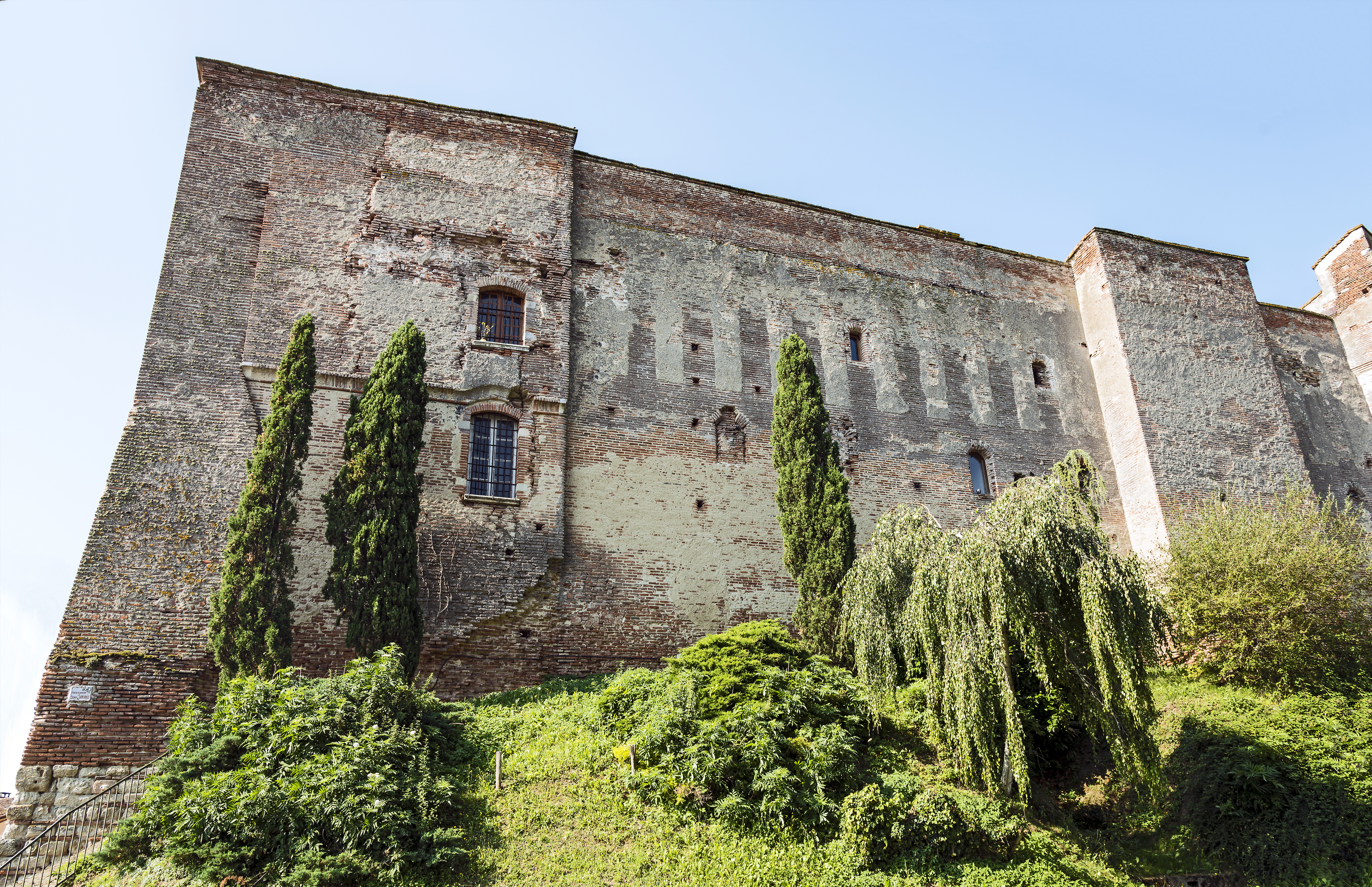 Low-angle shot of the citadel of Verfeil, Haute-Garonne, France.